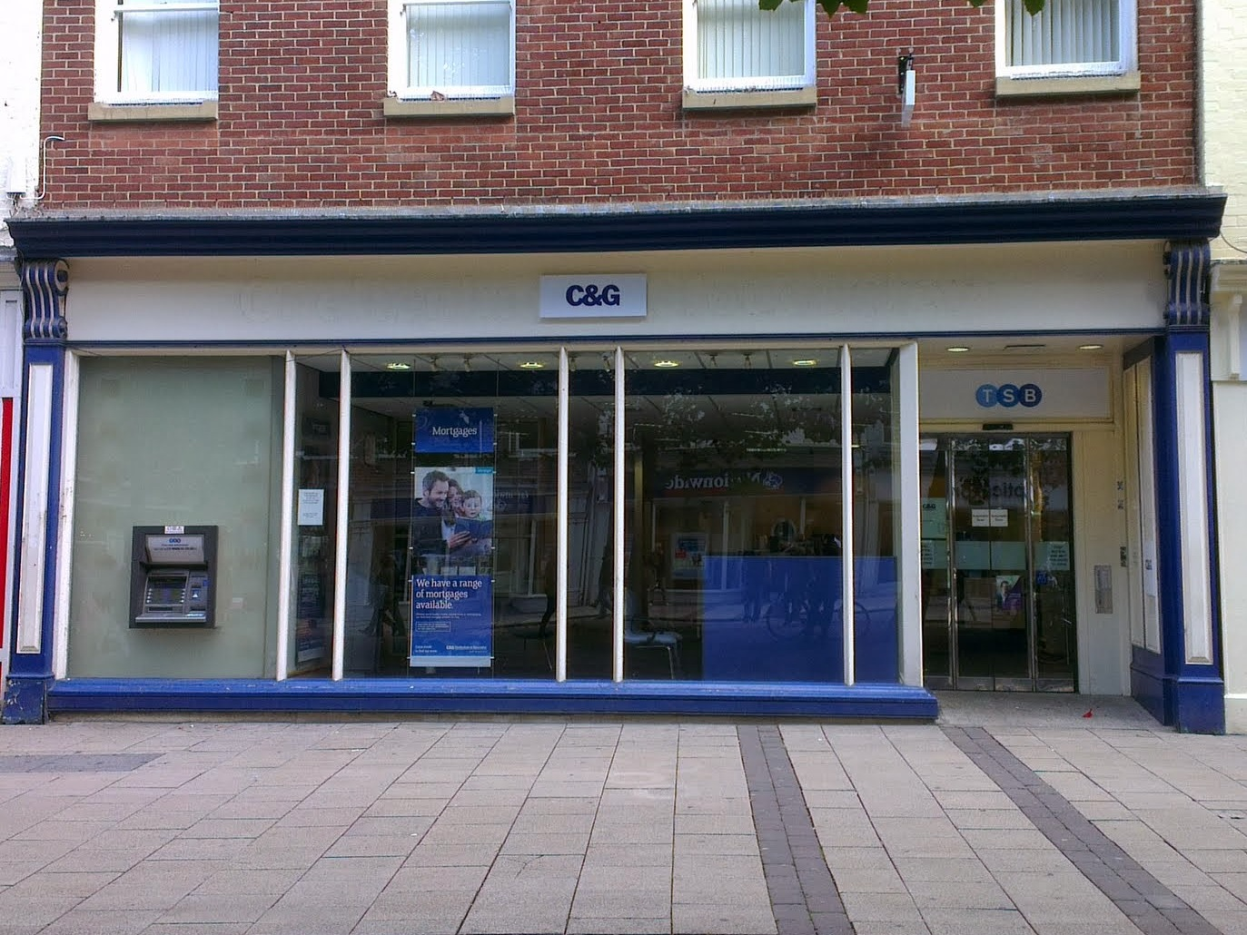 Frontage of TSB branch in Parliament Street, York with transitional C&G branding before TSB reveal. Note branding above entrance door and on ATM has already been revealed.